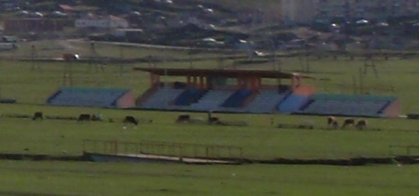 Erdenet Sports Centre